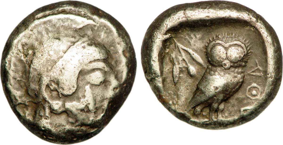 Tétradrachme de la cité d'Athènes à l'effigie d'Athéna et d'une chouette. Date : c. 500-490 AC.